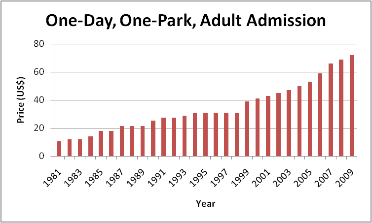 Ticket price evolution of Disneyland theme park. Based on information from and from the collaboration of editors at